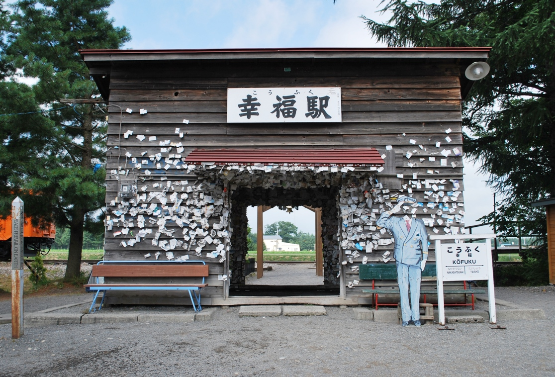 Koufuku-station mark in abolished Hiroo line in japan